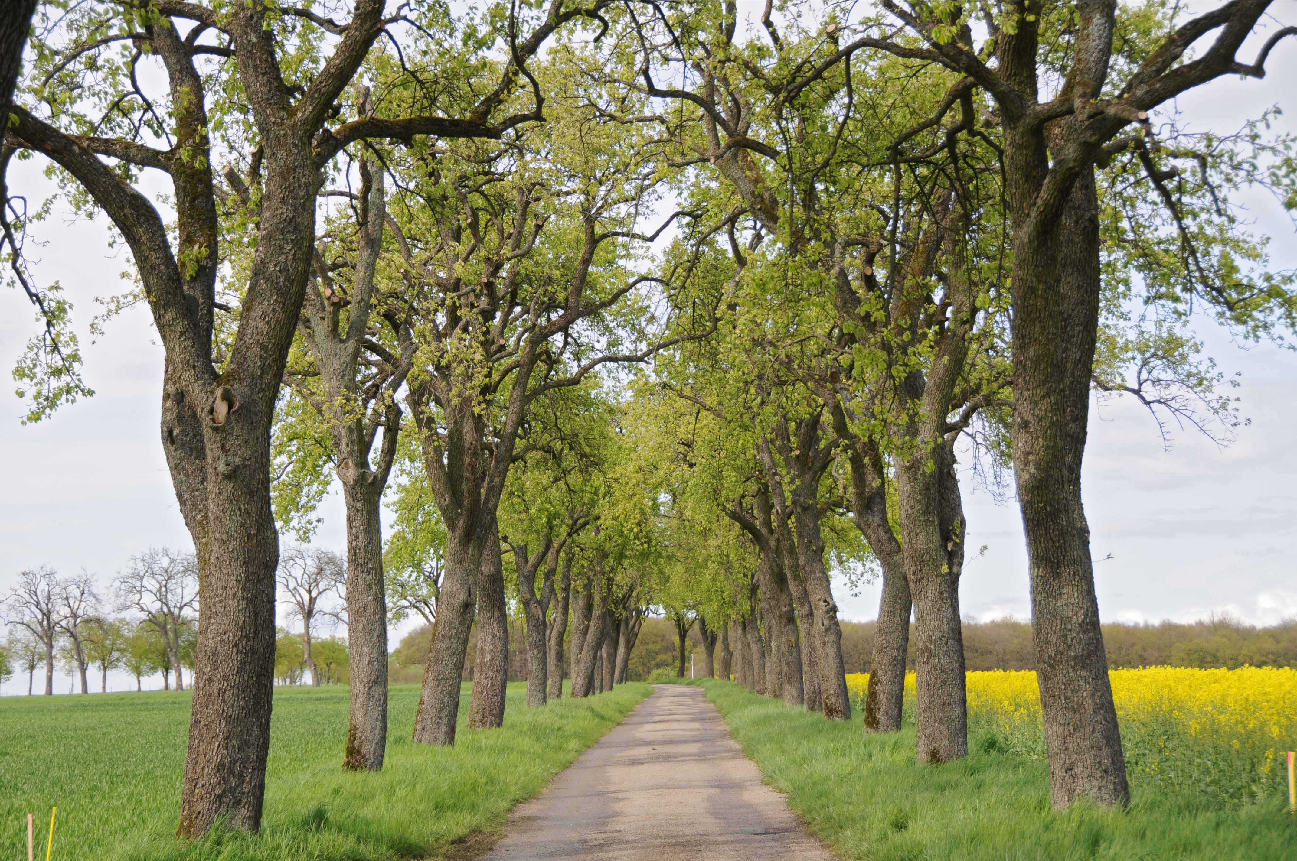 Remarkable trees in Mondorf-les-Bains, Luxembourg.